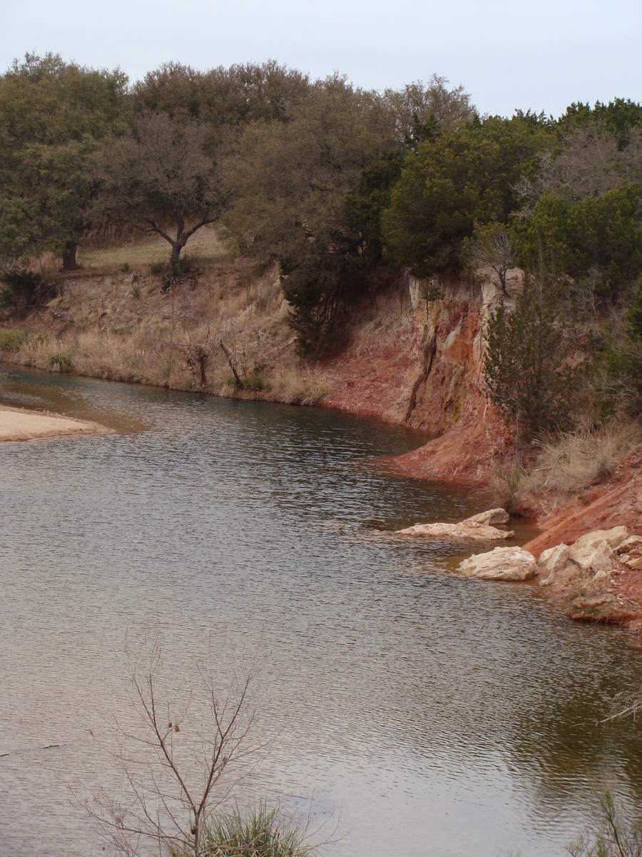 Crabapple Creek, Texas Hill Country